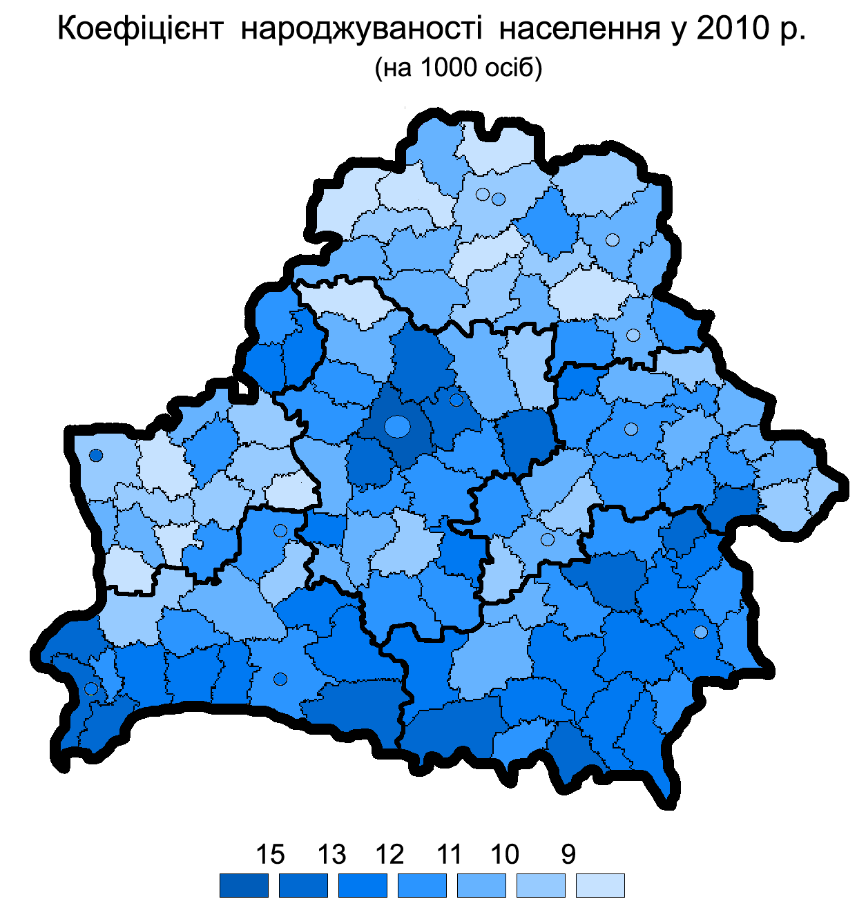 Birth rate in Belarus, 2010